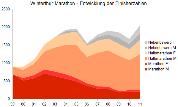 Developement of the finisher at the Winterthur Marathon